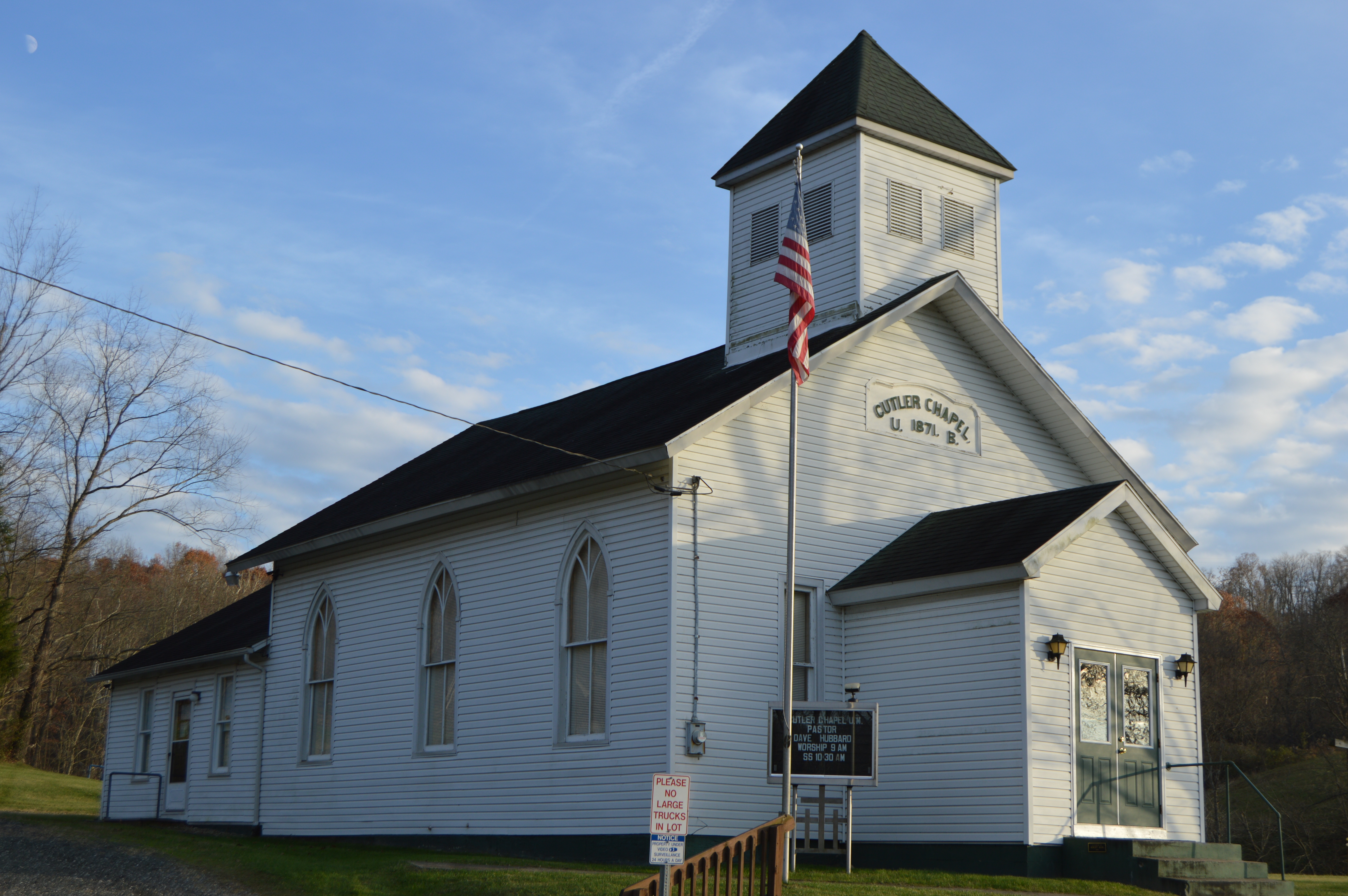 Front and northern side of Cutler Chapel United Methodist Church, located on Veto Road west of Constitution in Dunham Township, Washington County, Ohio, United States.